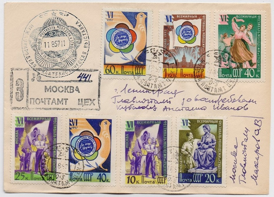 USSR 1957-08-11 cover sent registered from Moscow, franked with stamps of the 1957 6th youth and students festival issue. Catalogue: Mi. 1922A, 1945A-1949A, 1980A.